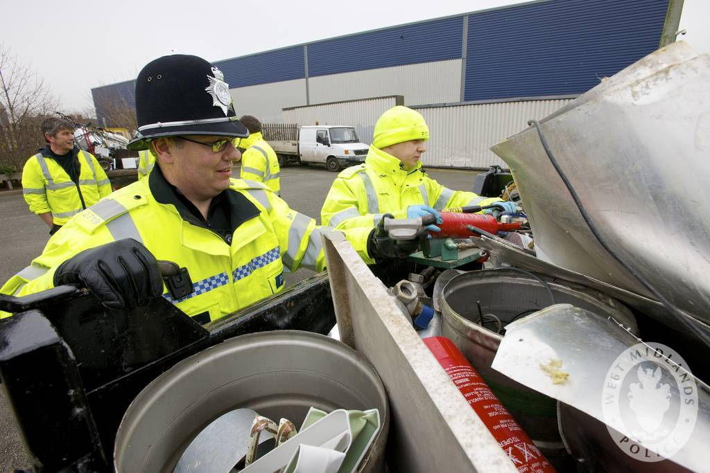 This photo shows officers checking a scrap van in a bid to deter metal theft and educate scrap dealers. This week, West Midlands Police announced that the number of metal thefts across the region had been halved since the start of 2012, thanks to Operation Steel, a high profile initiative tackling thieves and rogue scrap dealers. Between 1 January and 30 March 2012 there were a total of 1062 metal thefts recorded across the West Midlands, compared to a total of 2222 offences over the same period in 2011. Dedicated metal theft teams, targeted uniformed patrols, DNA property marking and tighter controls for Scrap Metal traders have all played their part in helping to reduce offences by 52 per cent compared to the same period last year. The reduction in offences comes as the force announces that a new team is being launched to specifically tackle metal theft across the whole of the Midlands region. The dedicated team, due to be launched in June, will co-ordinate the response to metal theft for the region, working with colleagues across West Midlands, West Mercia, Staffordshire and Warwickshire.